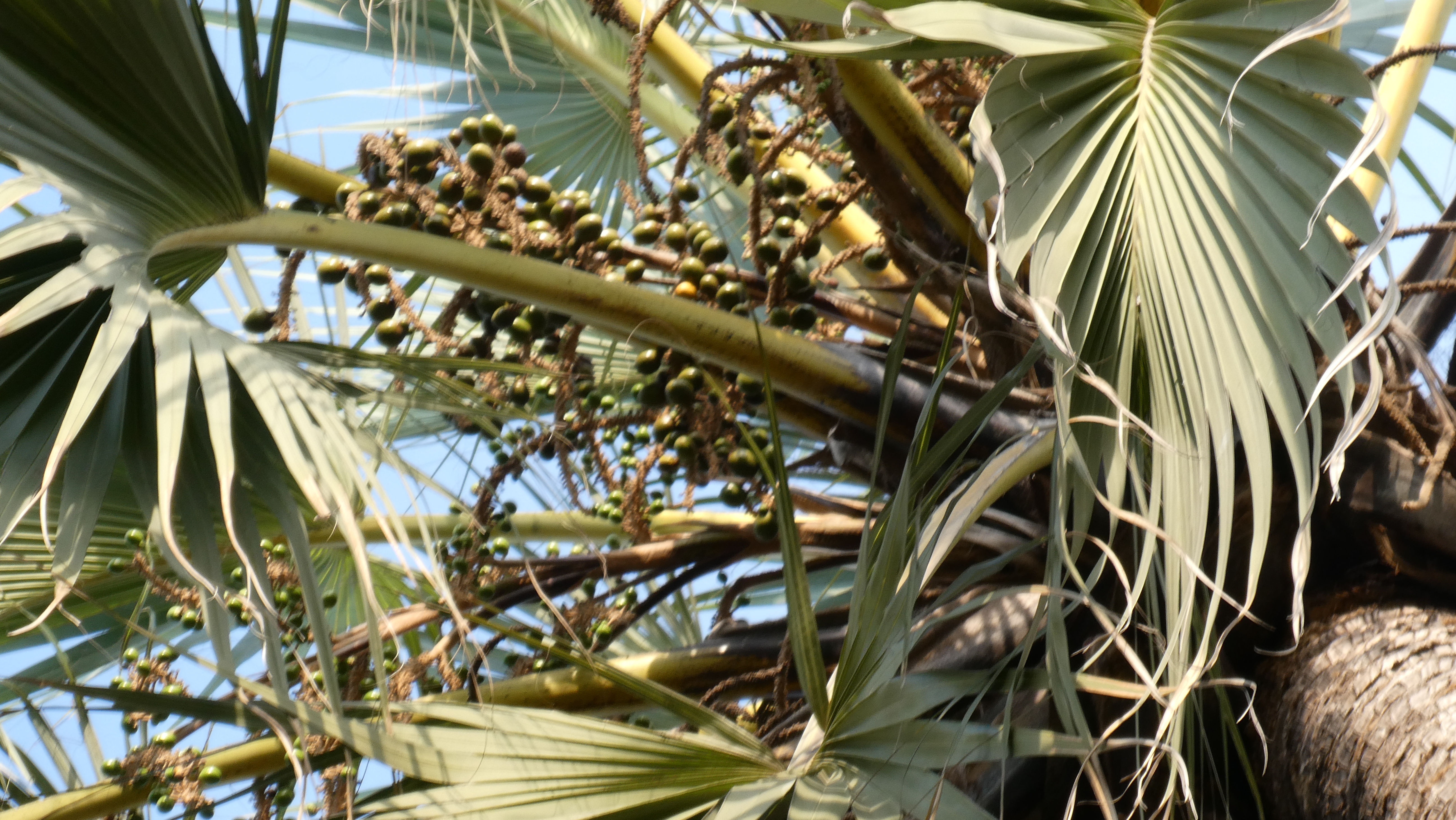 Medemia argun in Nong-Nooch Botanic Garden